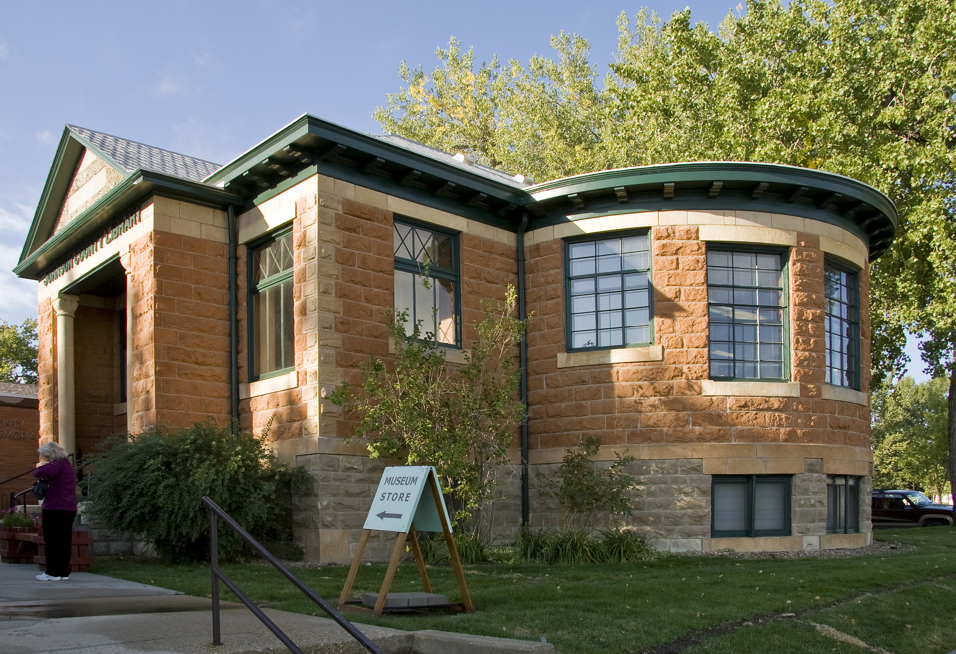 Johnson County Library, now the Jim Gatchell Museum in Buffalo, Wyoming, USA